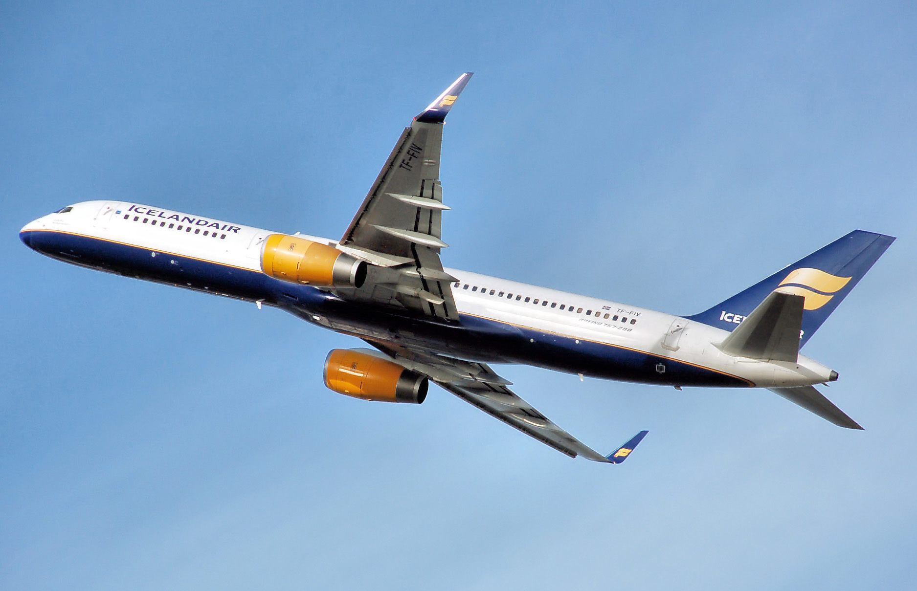 Icelandair Boeing 757-200 (TF-FIV) takes off from London Heathrow Airport, England. Photographed by Adrian Pingstone in January 2007 and released to the public domain.